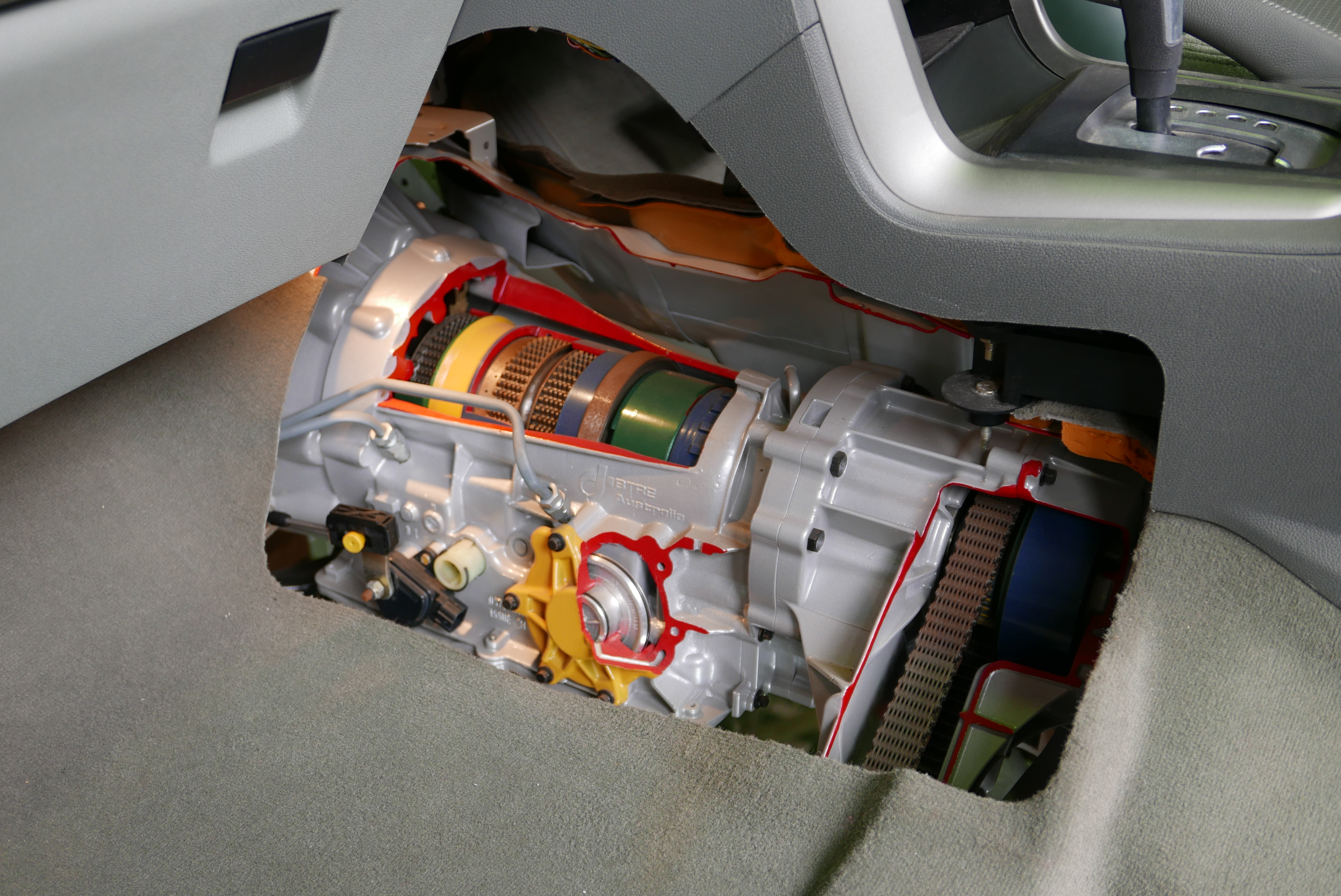 Cutaway of a 2004 Ford Territory (SX) TS wagon, revealing the four-speed M93LE automatic transmission (from Drivetrain Systems International). Photographed at the Geelong Museum of Motoring and Industry, North Geelong, Victoria, Australia. The car has been cutaway to reveal the internal structure and functioning with red edges generally signify that a cut has been made to the vehicle.